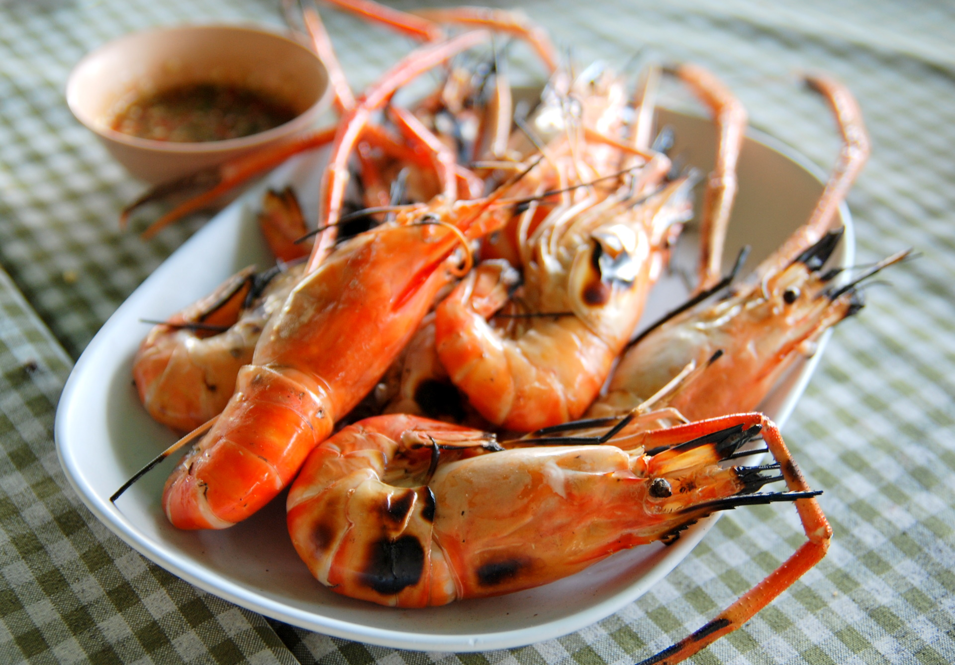 Kung yang (lit.: Grilled prawns; Thai script: กุ้งย่าง) or Kung Phao (lit.: Burnt prawns; Thai script: กุ้งเผา), Thai for grilled prawns, it is normally served with a nam chim, a spicy dipping sauce, made with mashed raw garlic and green bird's eye chillies, sugar, fish sauce and lime juice. The prawns used here are kung kam kram (Thai script: กุ้งก้ามกราม), giant river prawns (Macrobrachium rosenbergii). '